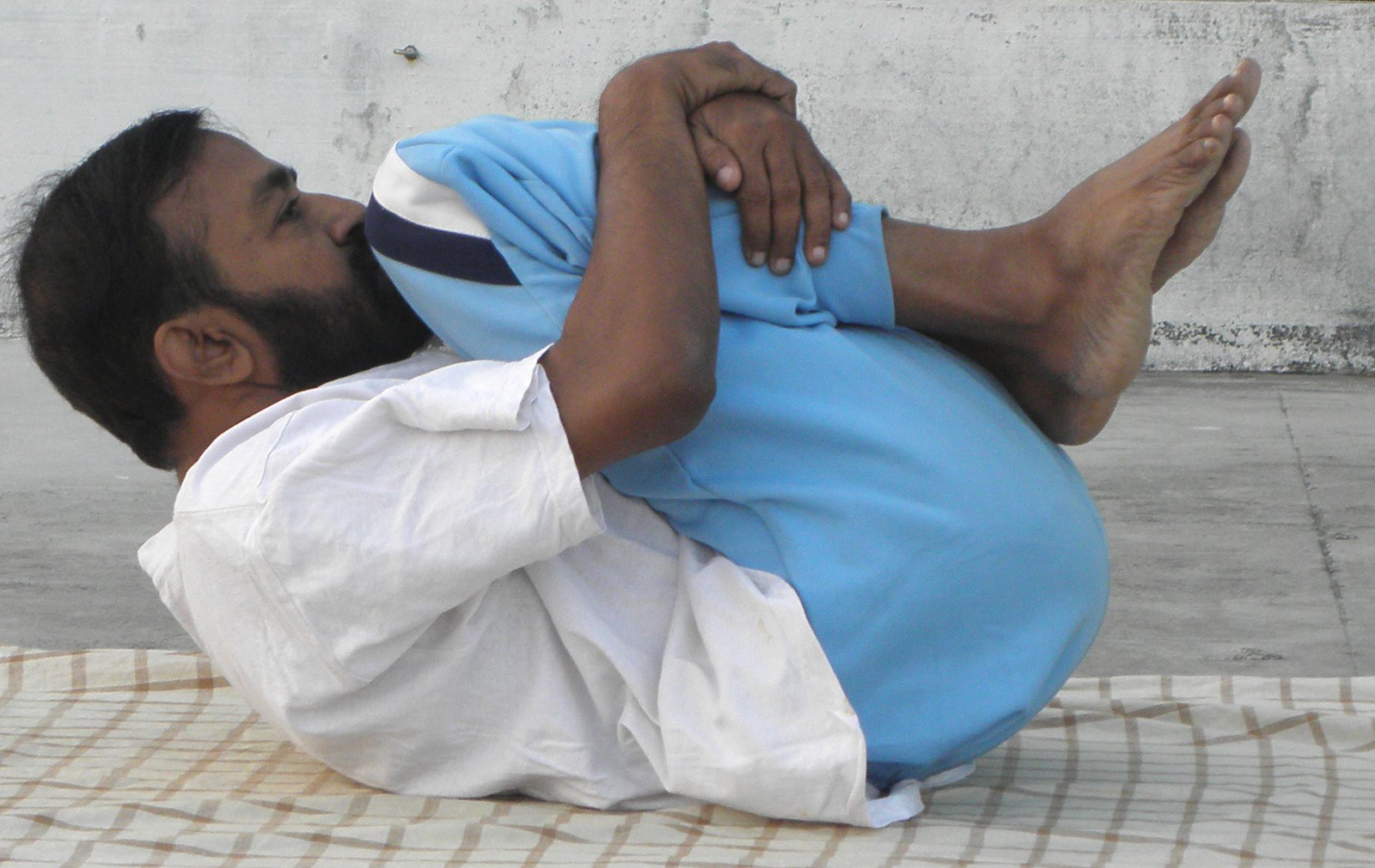 Full gas_release pose